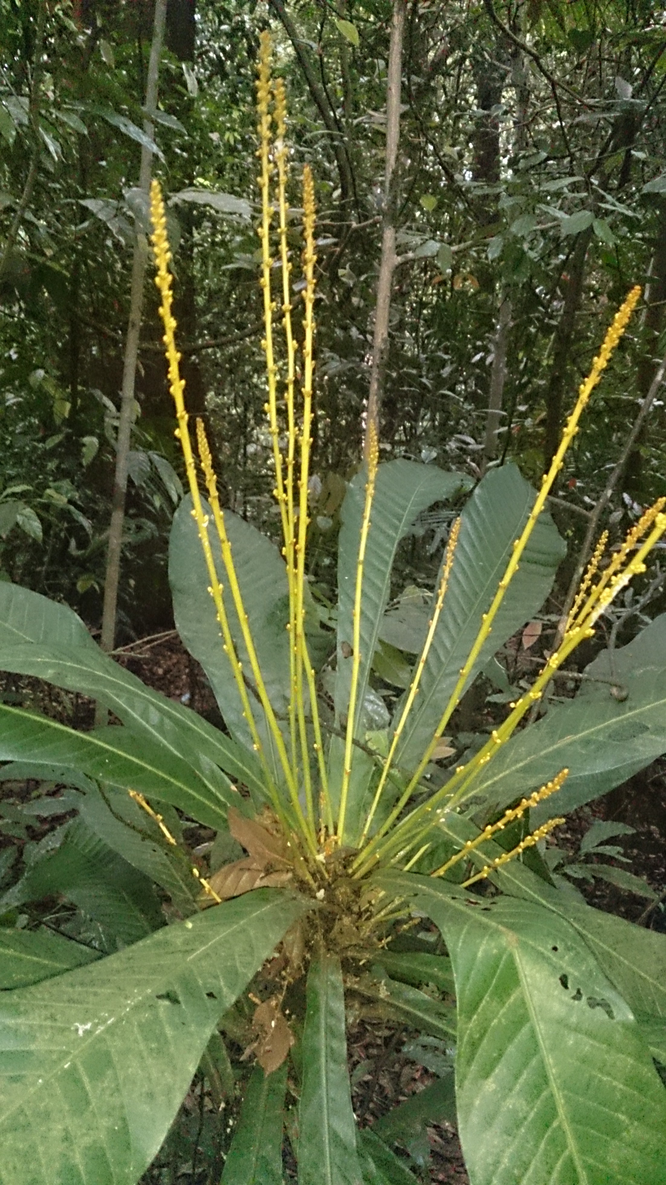 Agrostistachys longifolia. Syn: Agrostistachys borneensis Common names: Leaf Litter Plant. Bornean Jenjulong. Jenjulong. Commonly found near the ground in forests of Singapore.